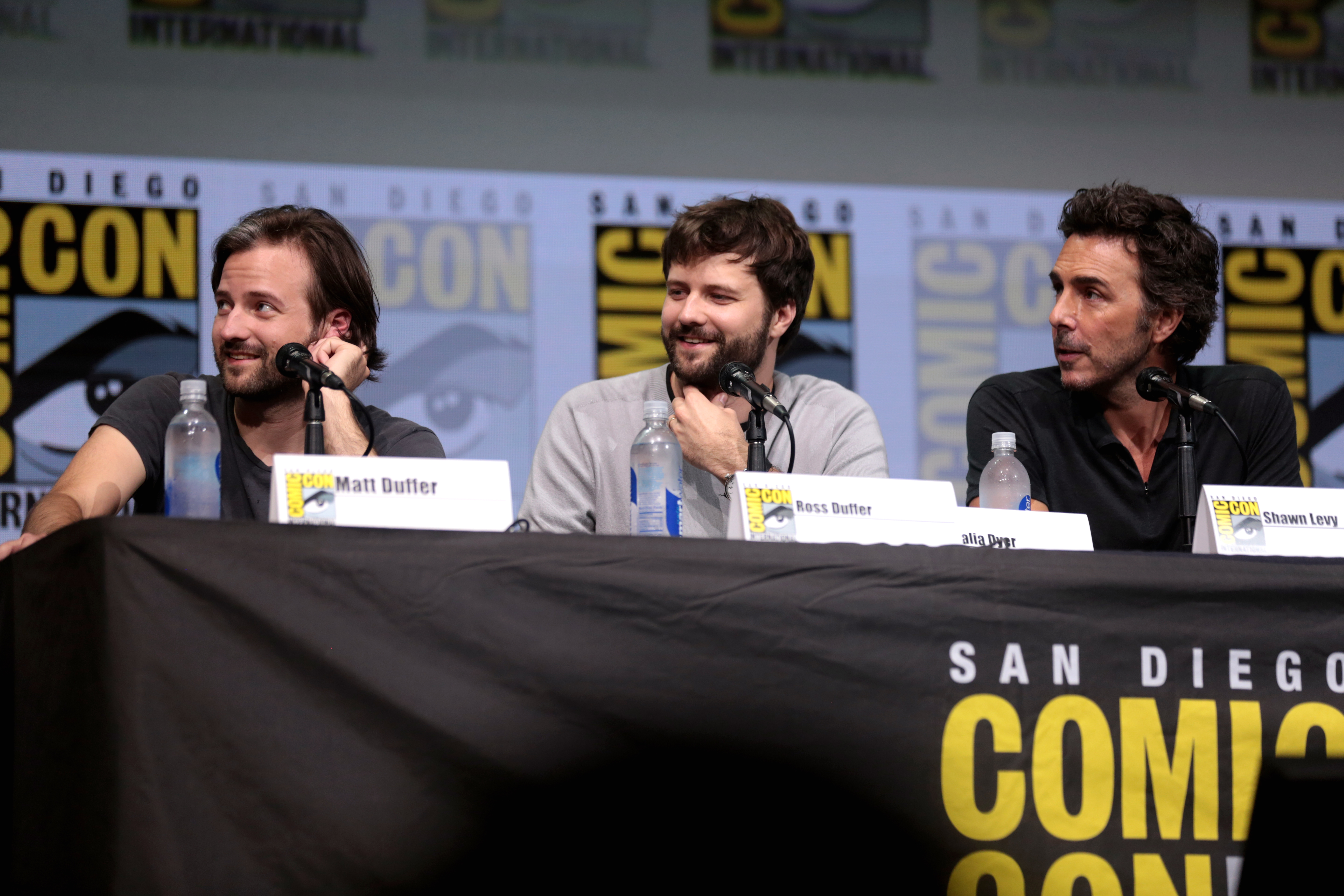 Matt Duffer, Ross Duffer and Shawn Levy speaking at the 2017 San Diego Comic Con International, for "Stranger Things", at the San Diego Convention Center in San Diego, California.